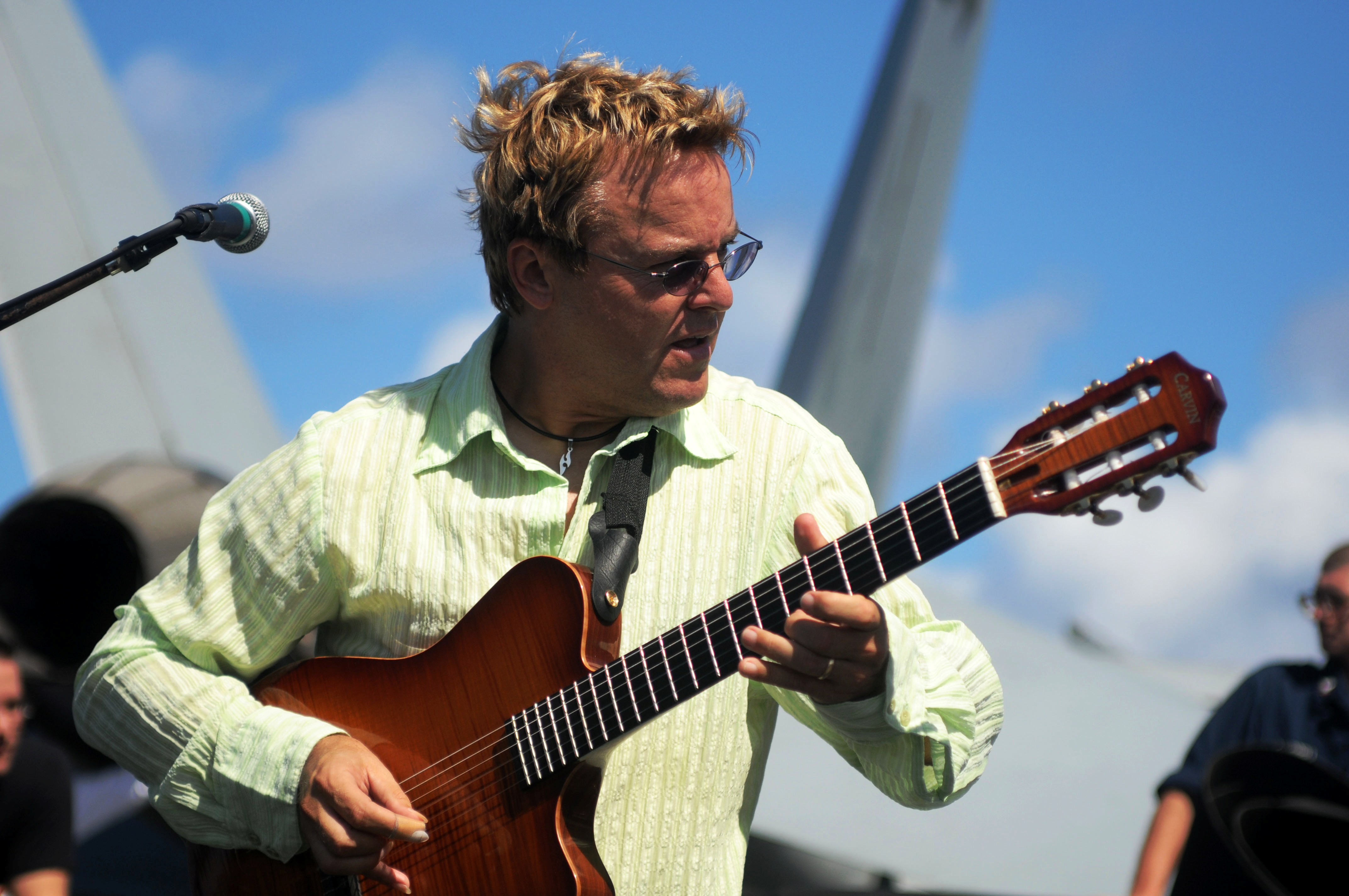 Steve Oliver, a jazz musician, plays guitar during a live concert performance.